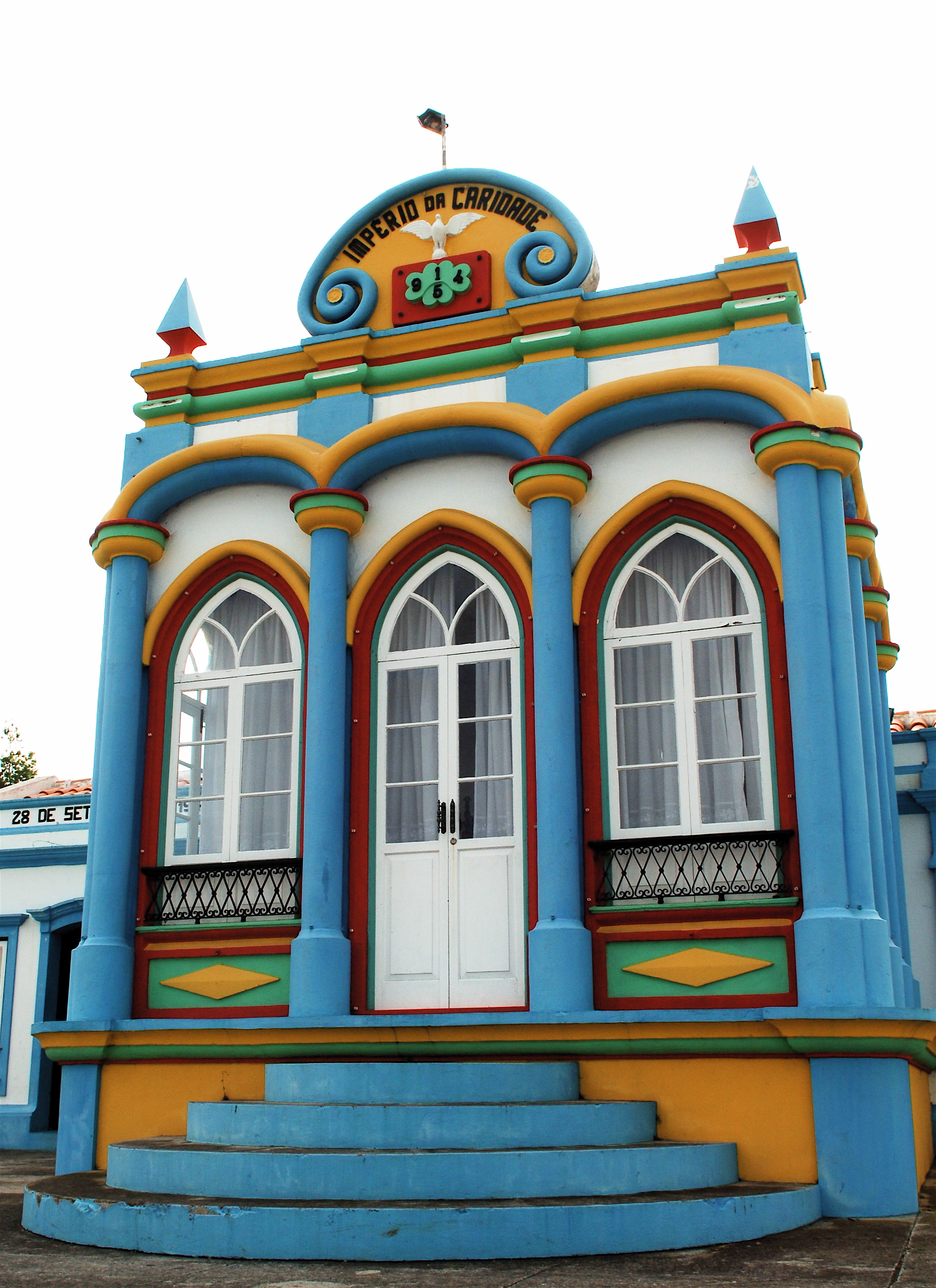 Portuguese "Império" in the Azores. Figueiras do Paim, Terceira, Azores, Portugal